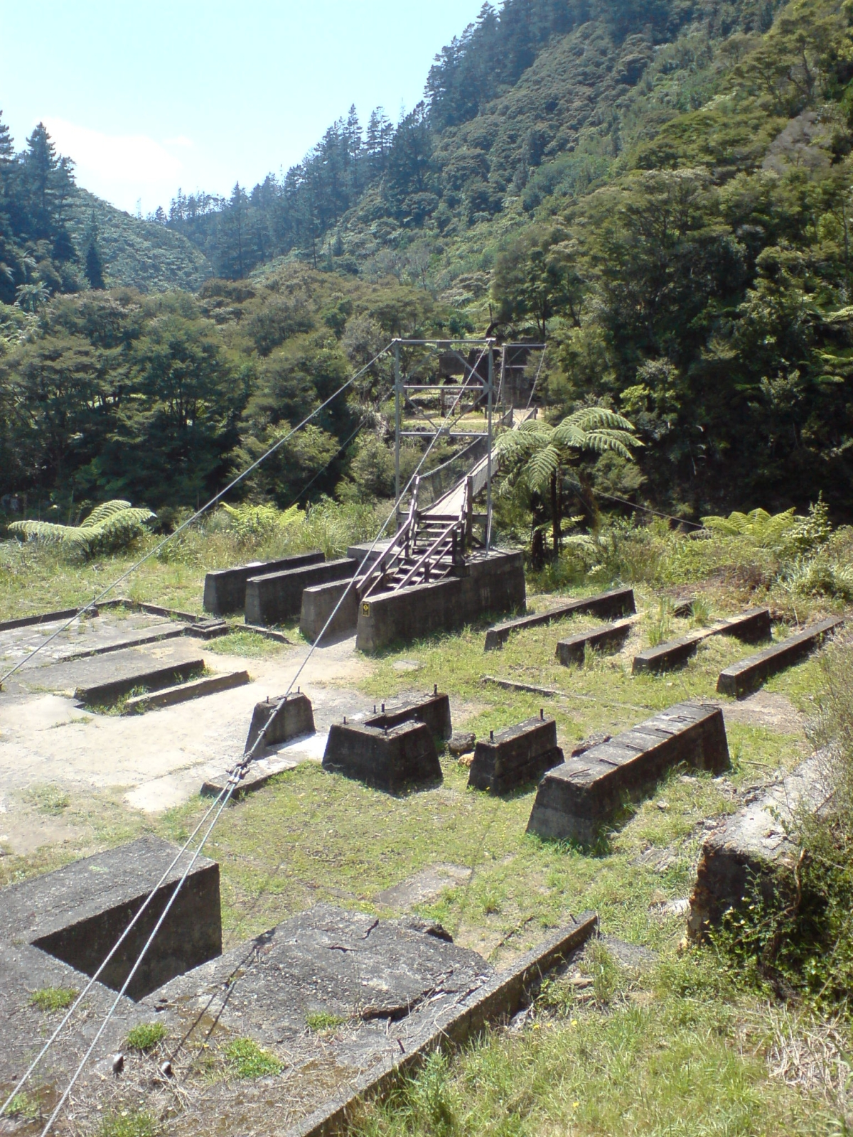 The remains of one of the stamping batteries at the western end of Karangahake Gorge in New Zealand. Looking southeast.